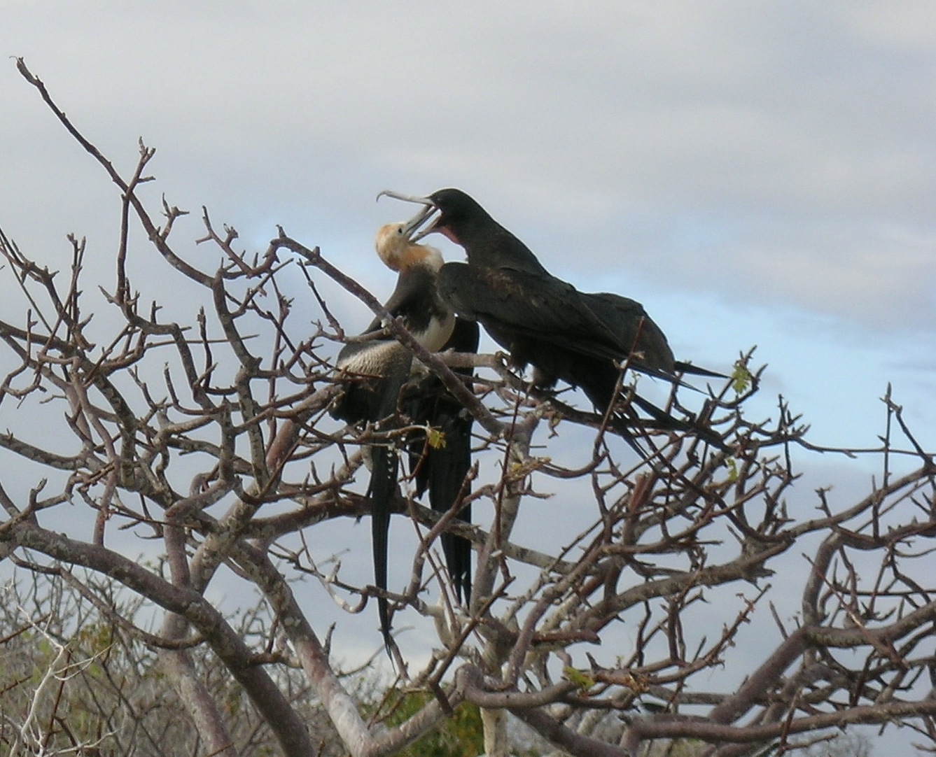 Magnificent Frigatebird (Fregata magnificens) feeding a chick, North Seymour Island, Galapagos